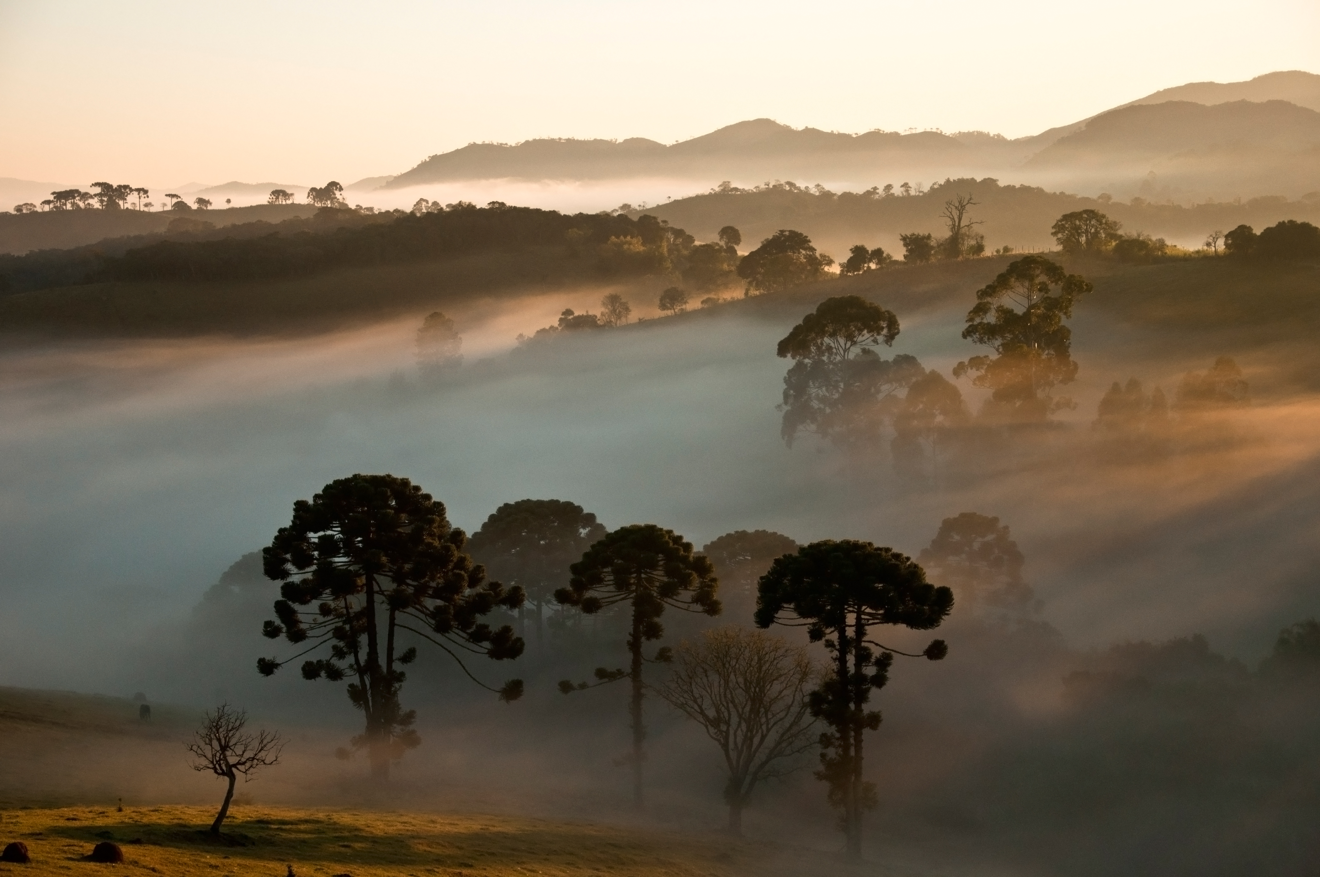 Sunrise with Paraná Araucarias (Araucaria angustifolia) as seen at the Serra da Bocaina National Park, Brazil.